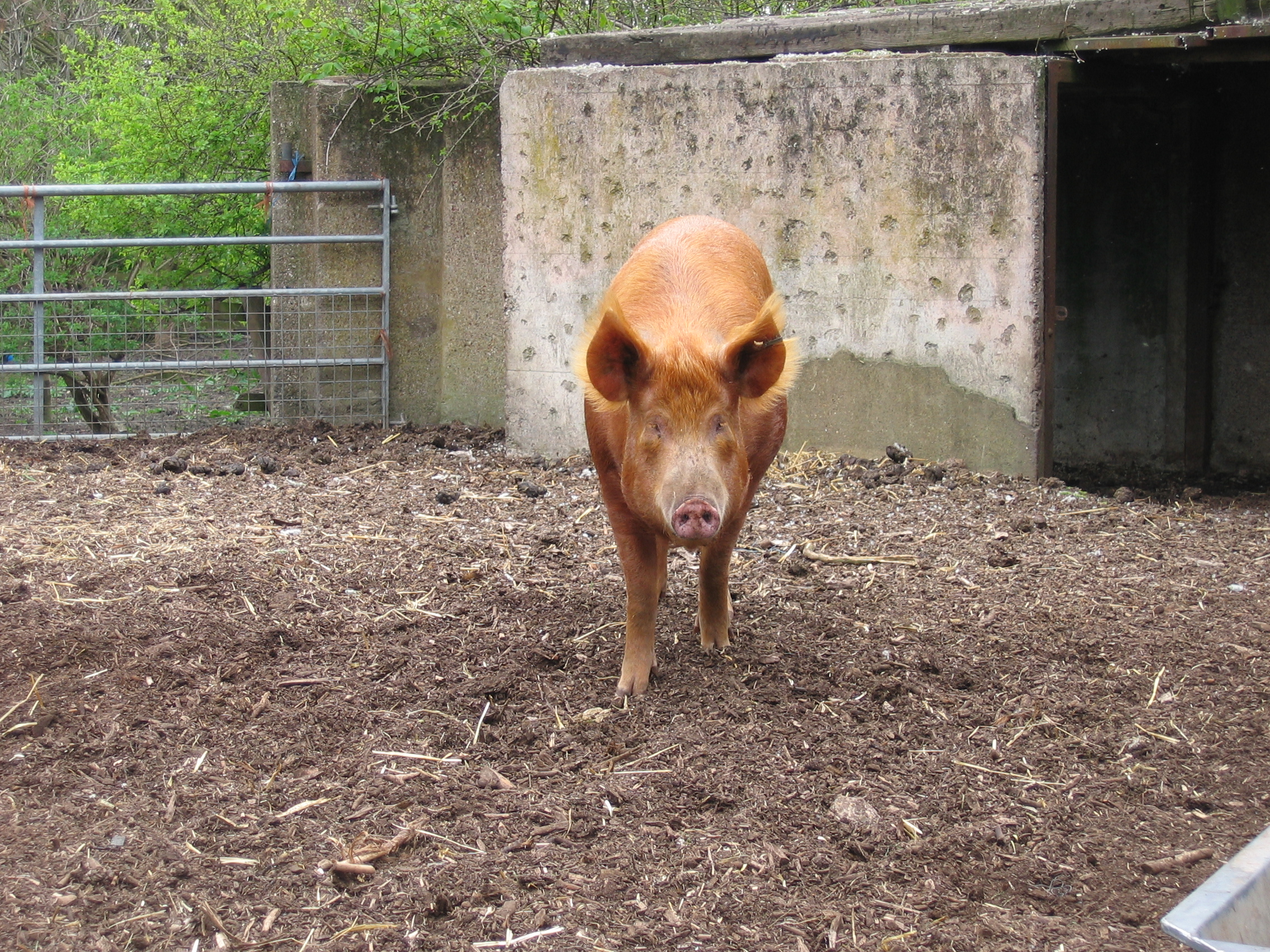 Mudchute City Farm pig. Breed: Tamworth.